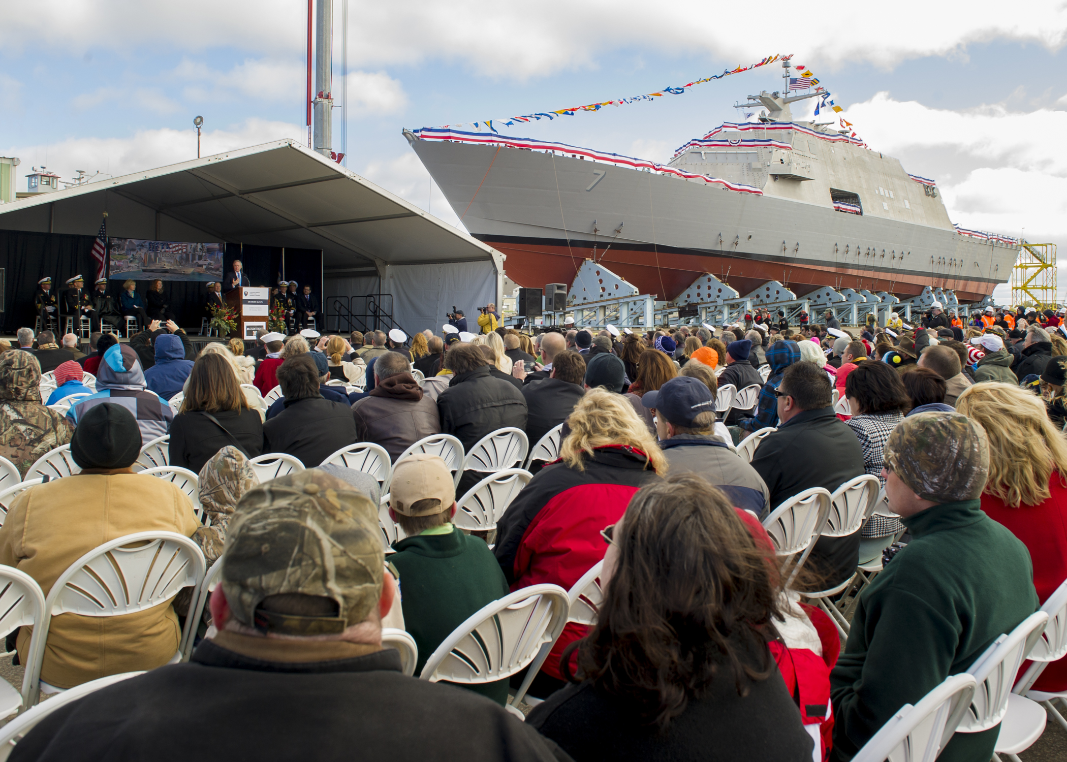 MARINETTE, Wis. (Oct. 18 , 2014) Secretary of the Navy (SECNAV) Ray Mabus delivers remarks during the christening ceremony for the littoral combat ship Pre-Commissioning Unit (PCU) Detroit (LCS 7) at Marinette Marine Corp. shipyard in Marinette, Wis. (U.S. Navy photo by Chief Mass Communication Specialist Sam Shavers/Released)